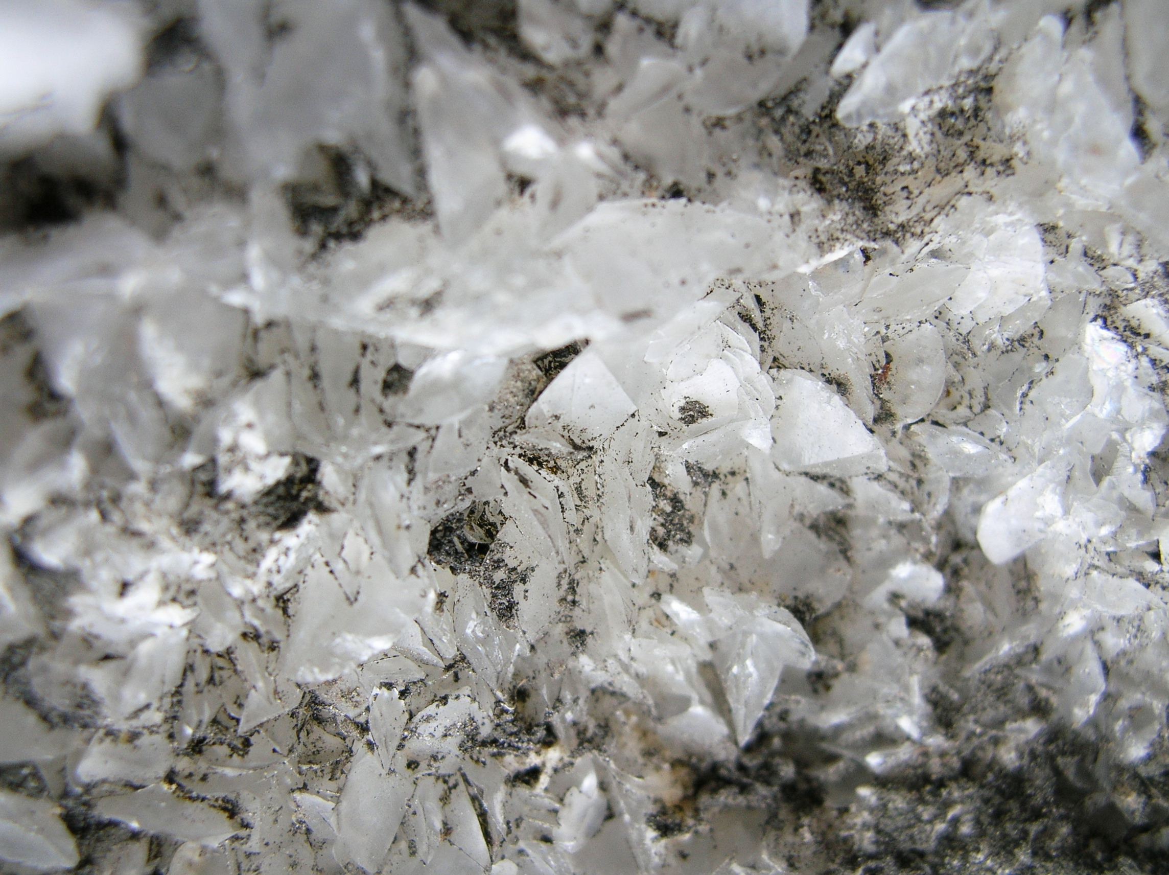 CaCO3,5mm-20mm,orthorhombic A≠B≠C Jin-yama,Kesennuma-city,Miyagi-prefecture,Japan